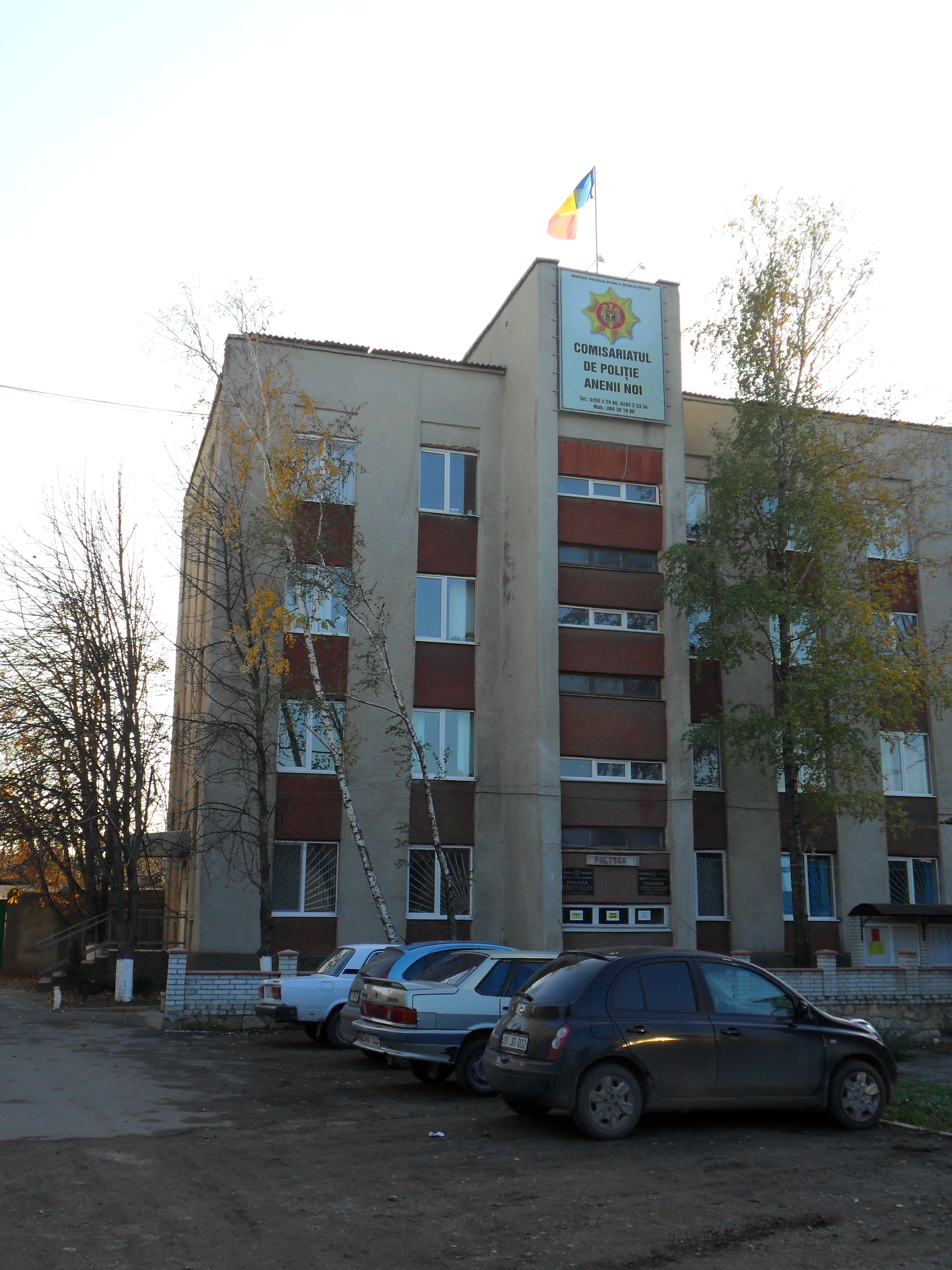 Police station of Anenii Noi District